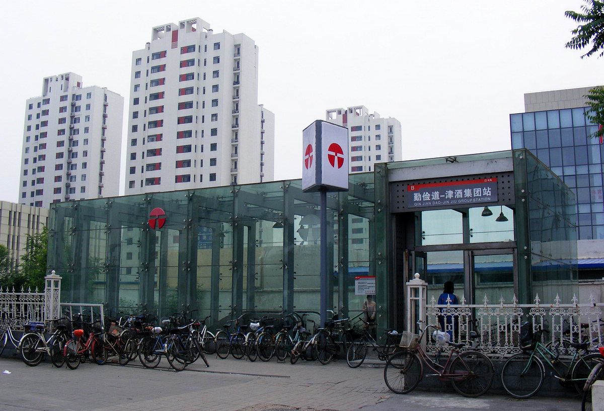 QINJIAN RD ST. (LINE 1)